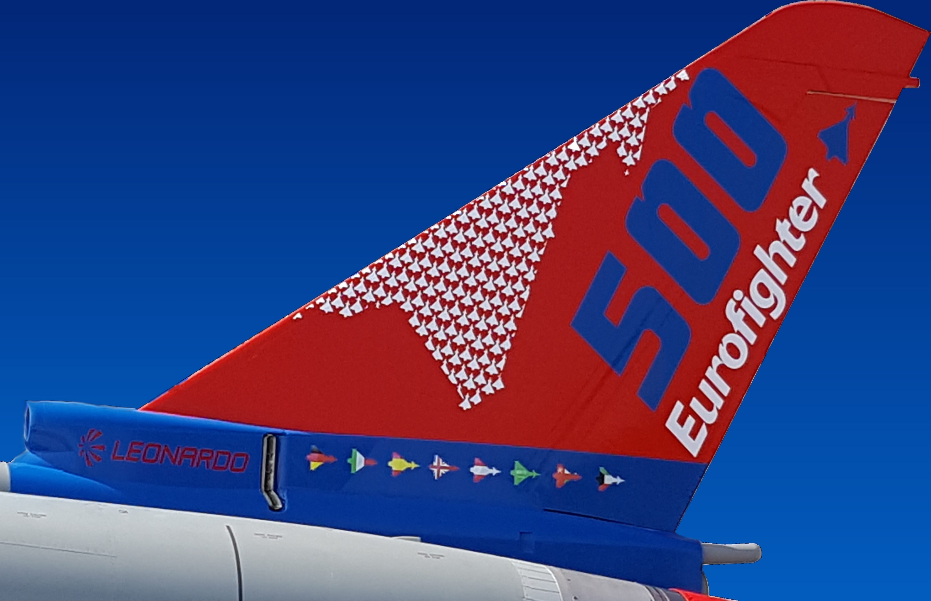 Eurofighter MM 7348 (IS074) special tail for number 500 of production.